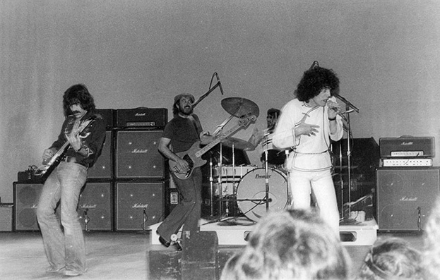 June 1976, South Bend, Ind.